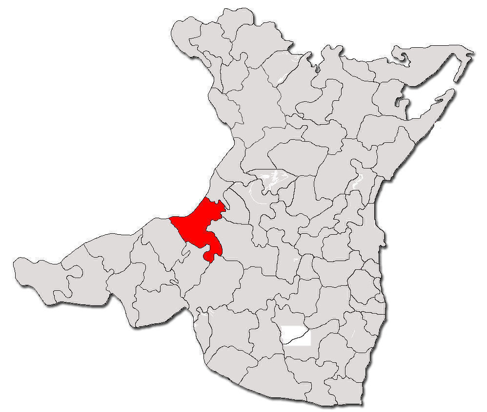 Countour map of Rasova commune